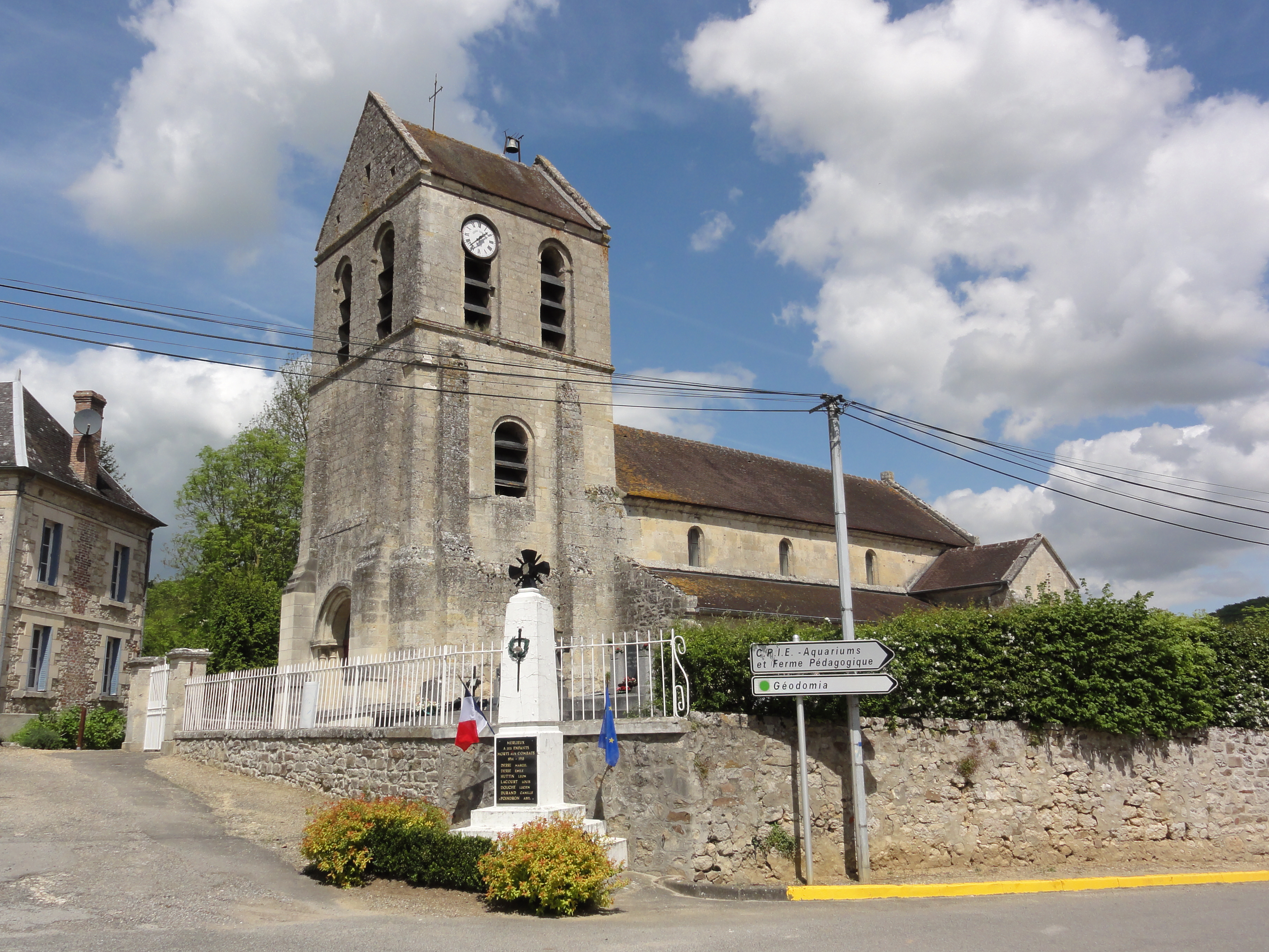 Merlieux-et-Fouquerolles (Aisne) église